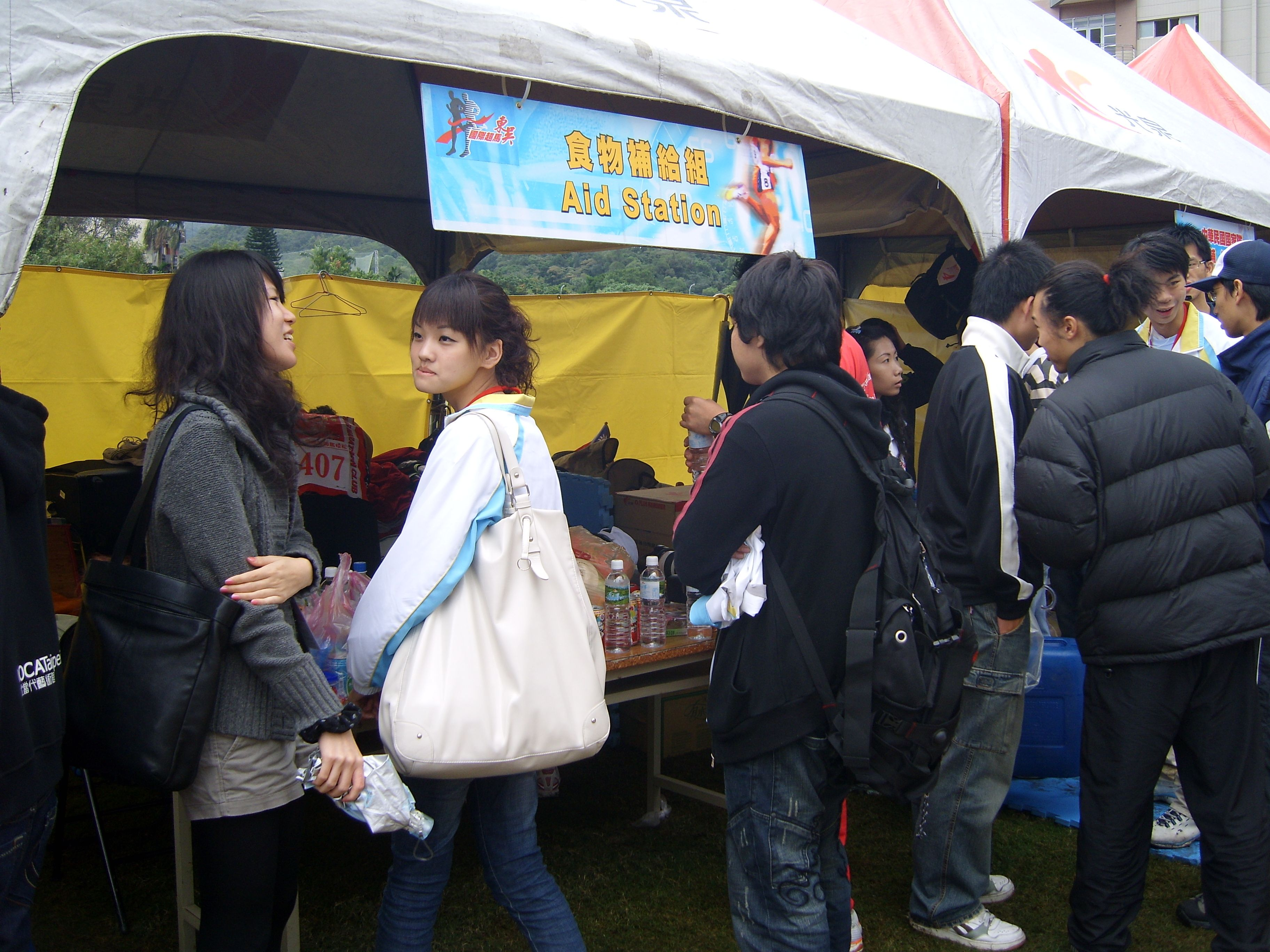 2007 Soochow International 24h Ultra-Marathon: Aid Station.